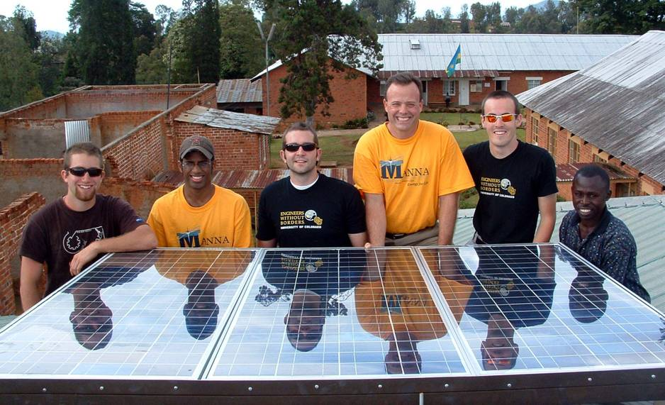 EWB project of solar energy for a hospital.